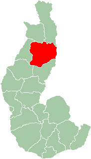 Location map of Mahabo region in Toliara province.